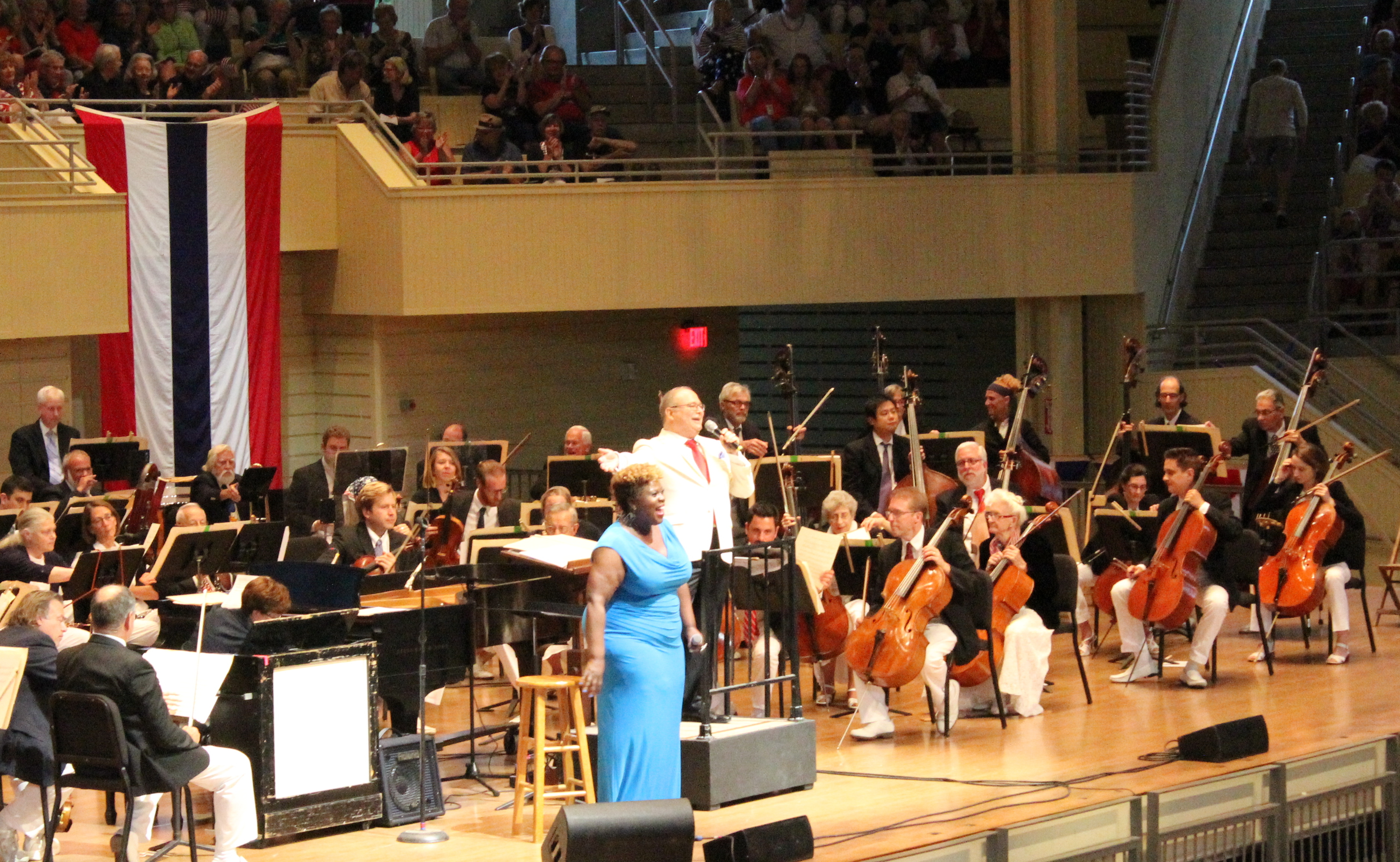 Singer Capathia Jenkins and conductor Stuart Chafetz with the Chautauqua Symphony Orchestra on the fourth of July, 2017